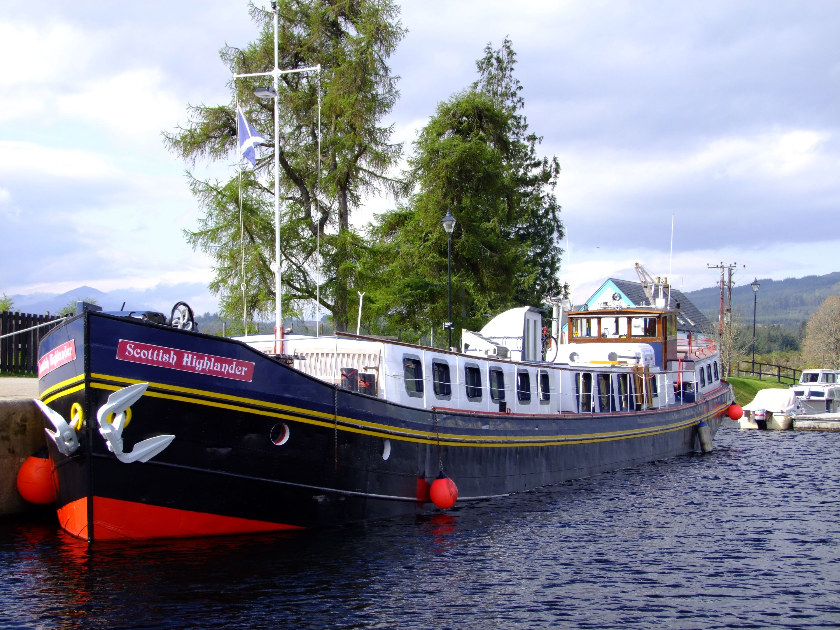 The Hotel Barge "Scottish Highlander" Moored Near Fort Augustus On The Caledonian Canal.